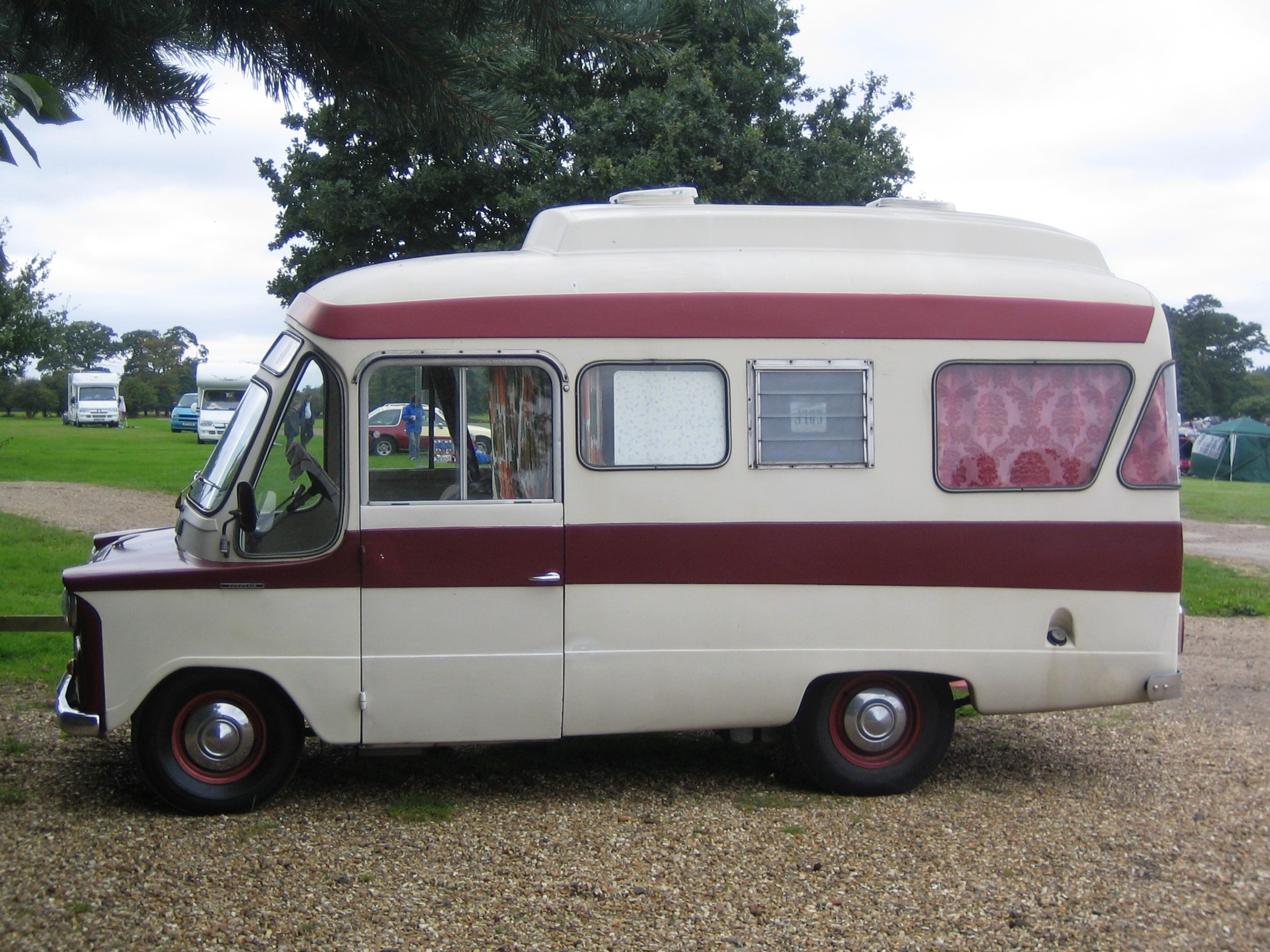 Bedford CA based Dormobile Debonaire at Knebworth Class Car Chow